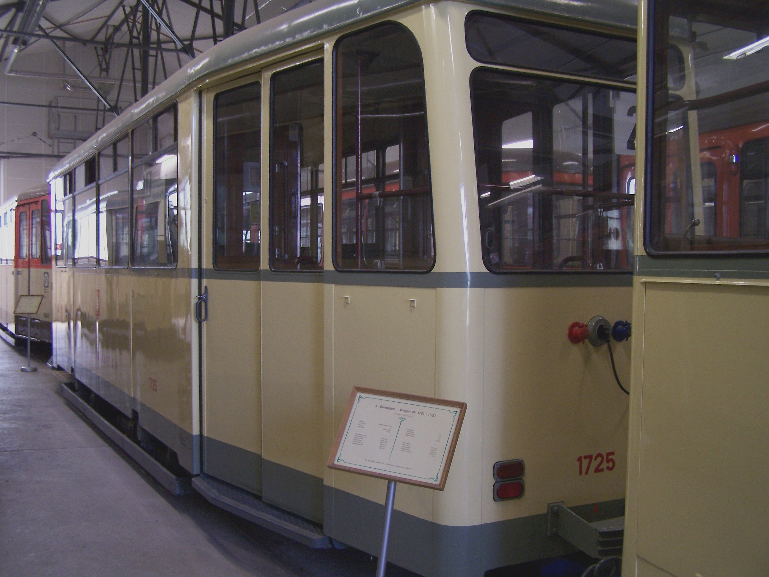 tram trailer type k No 1725 in the Frankfurt on Main Transport Museum in Frankfurt am Main--Schwanheim